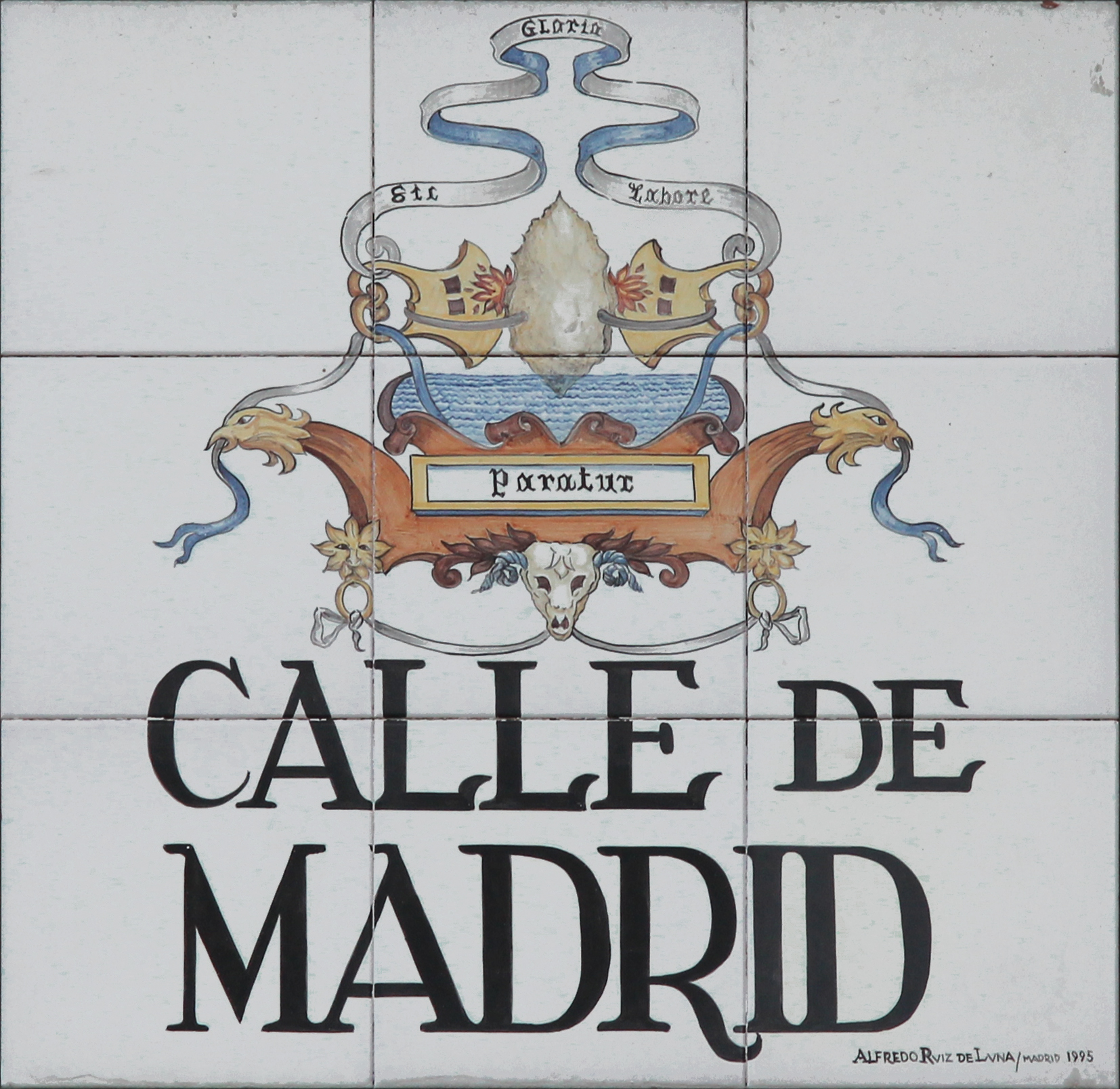 Sign of Calle de Madrid (street) in Madrid (Spain).